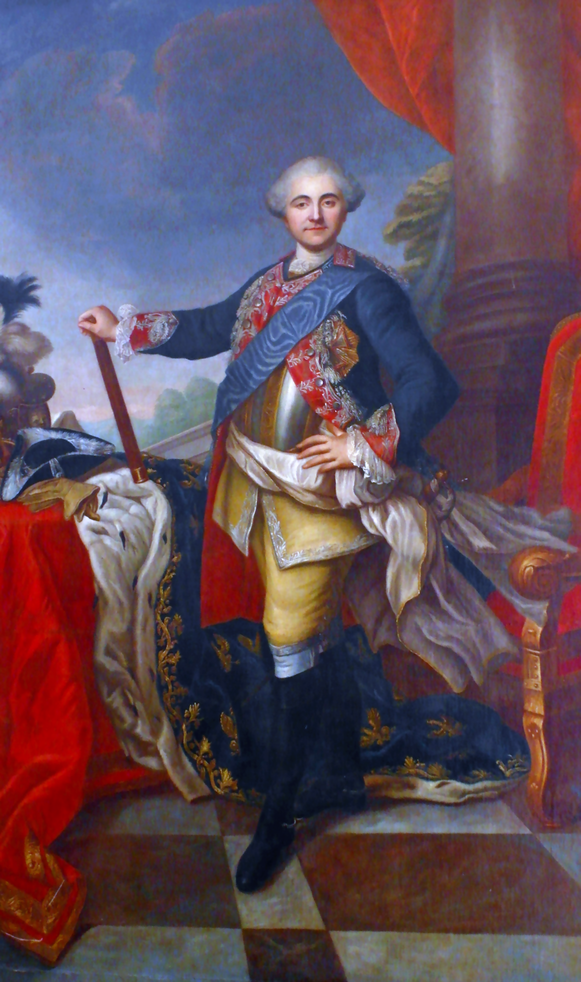 Portrait of Stanisław August Poniatowski (1732-1798)